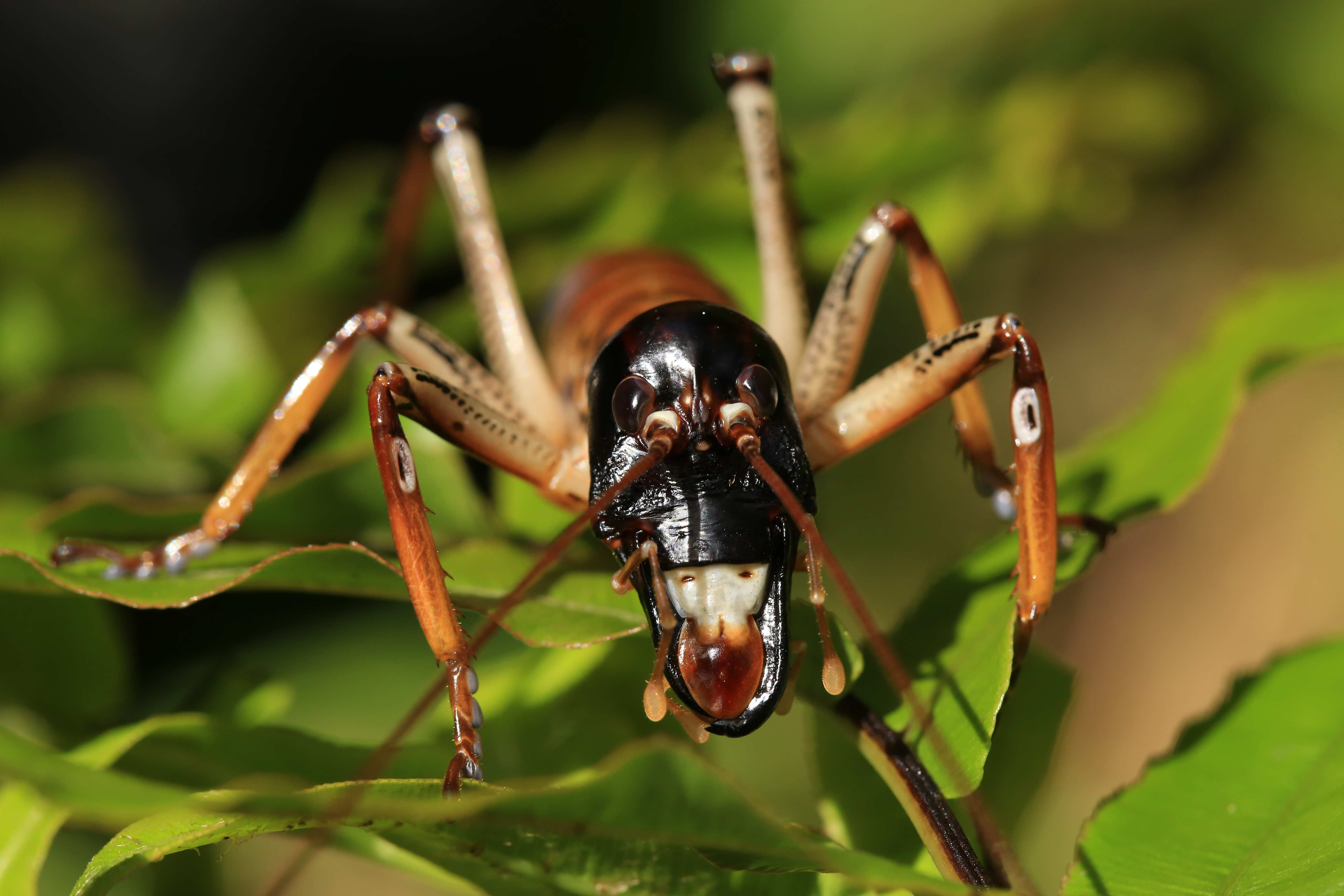 Front view of Auckland tree weta on a leaf.